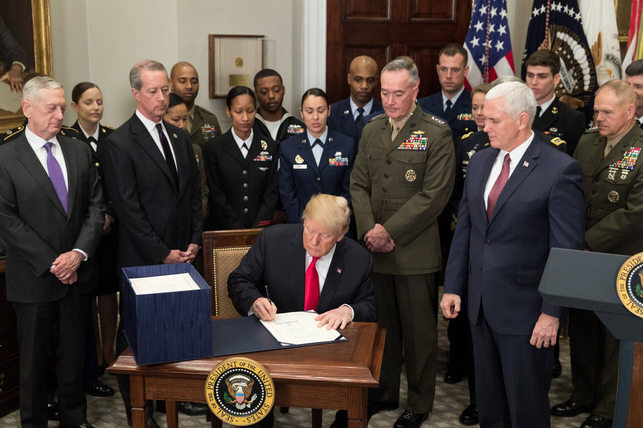 President Donald J. Trump signs H.R. 2810, the National Defense Authorization Act for the Fiscal Year of 2018 | December 12, 2017 (Official White House Photo by Stephanie Chasez)